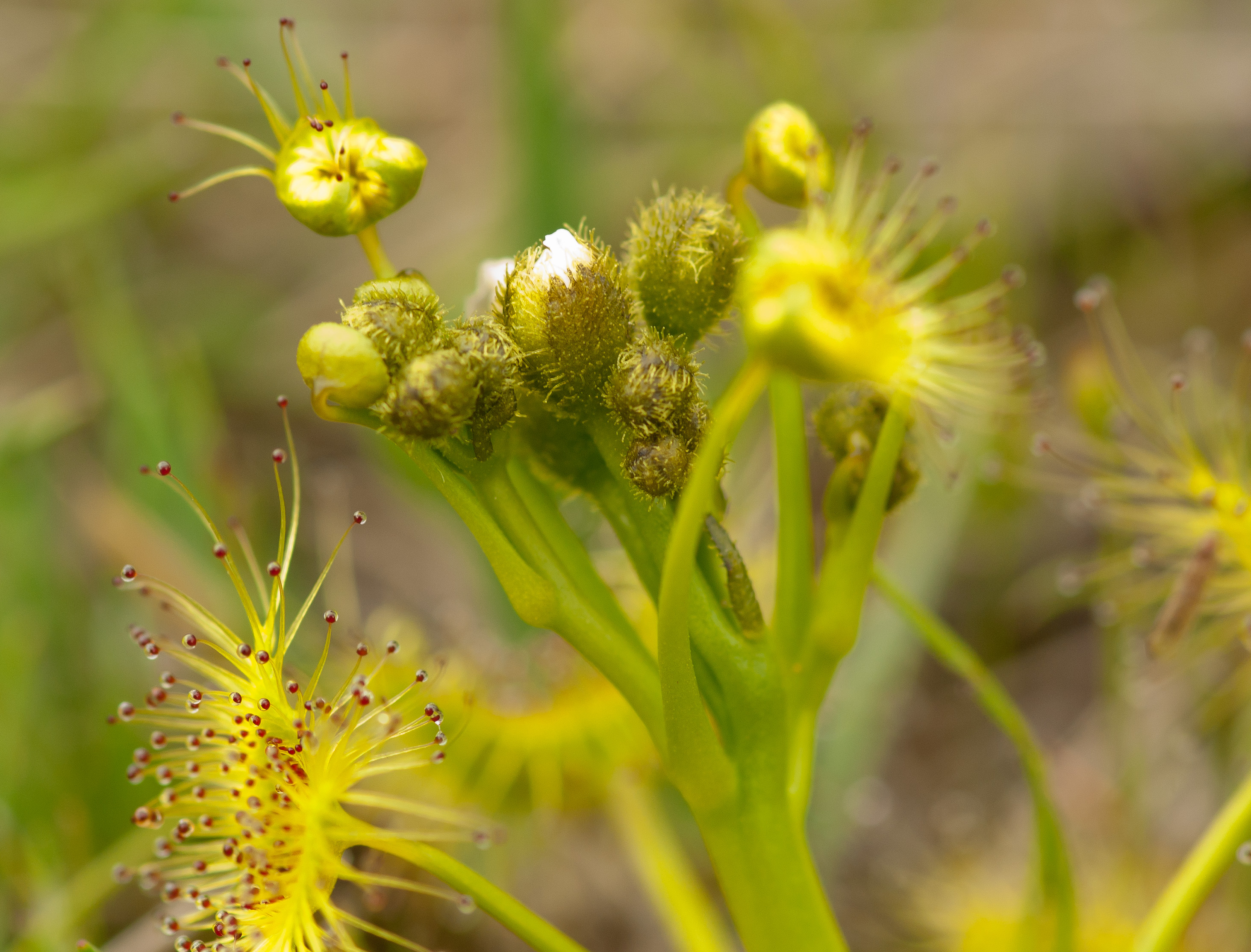 Detail of flower buds of Drosera hookeri from Tom Gibson Nature Reserve, Tasmania, Australia